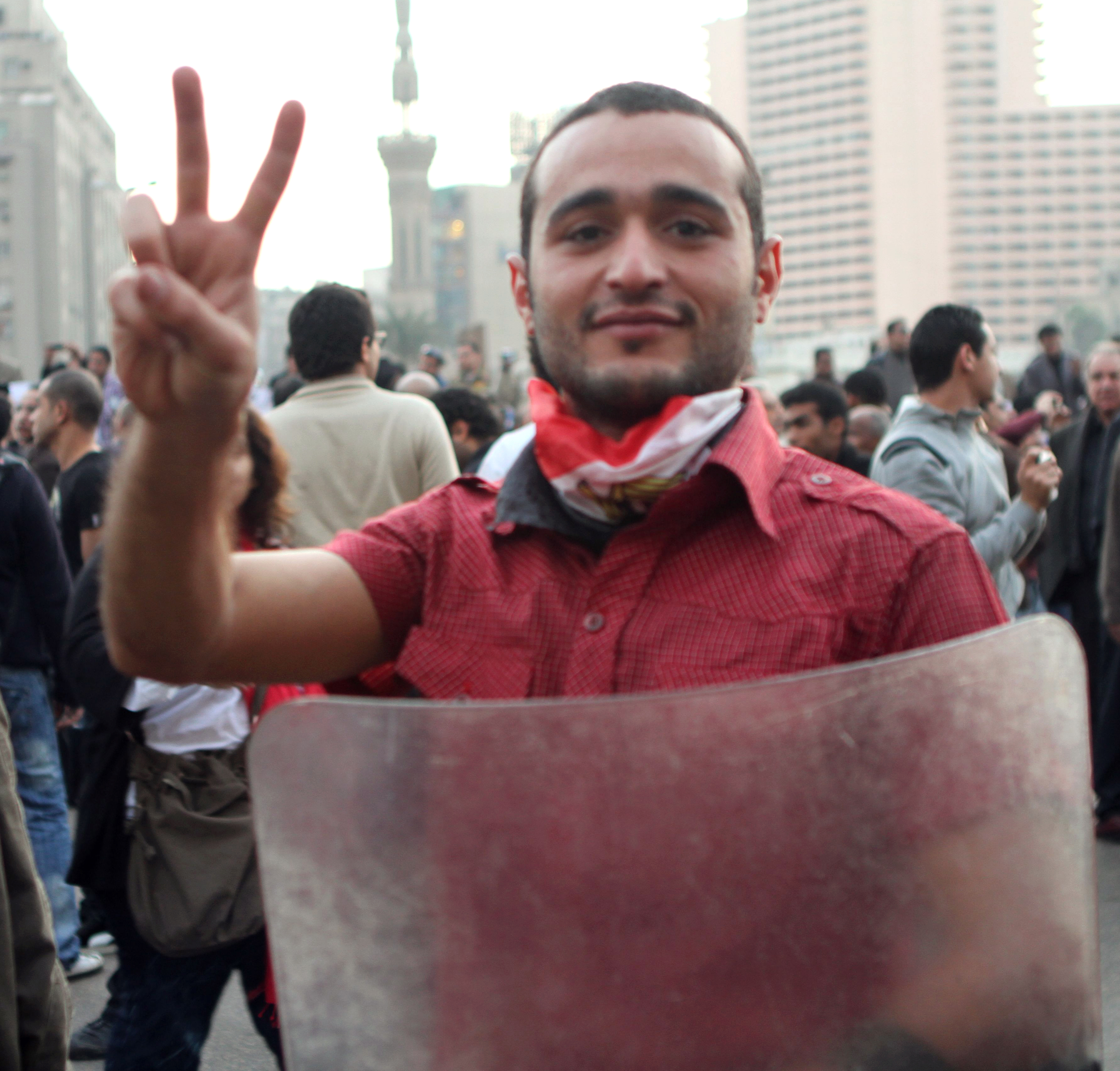 Photograph of Ahmed Douma with a CSF shield during the "Day of Anger"